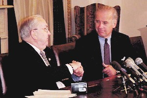 Senator Joe Biden and Sen. Jesse Helms (R-NC) at a press conference to discuss their deal that will pay the United Nations almost one billion dollars owed by the U.S. November 1999